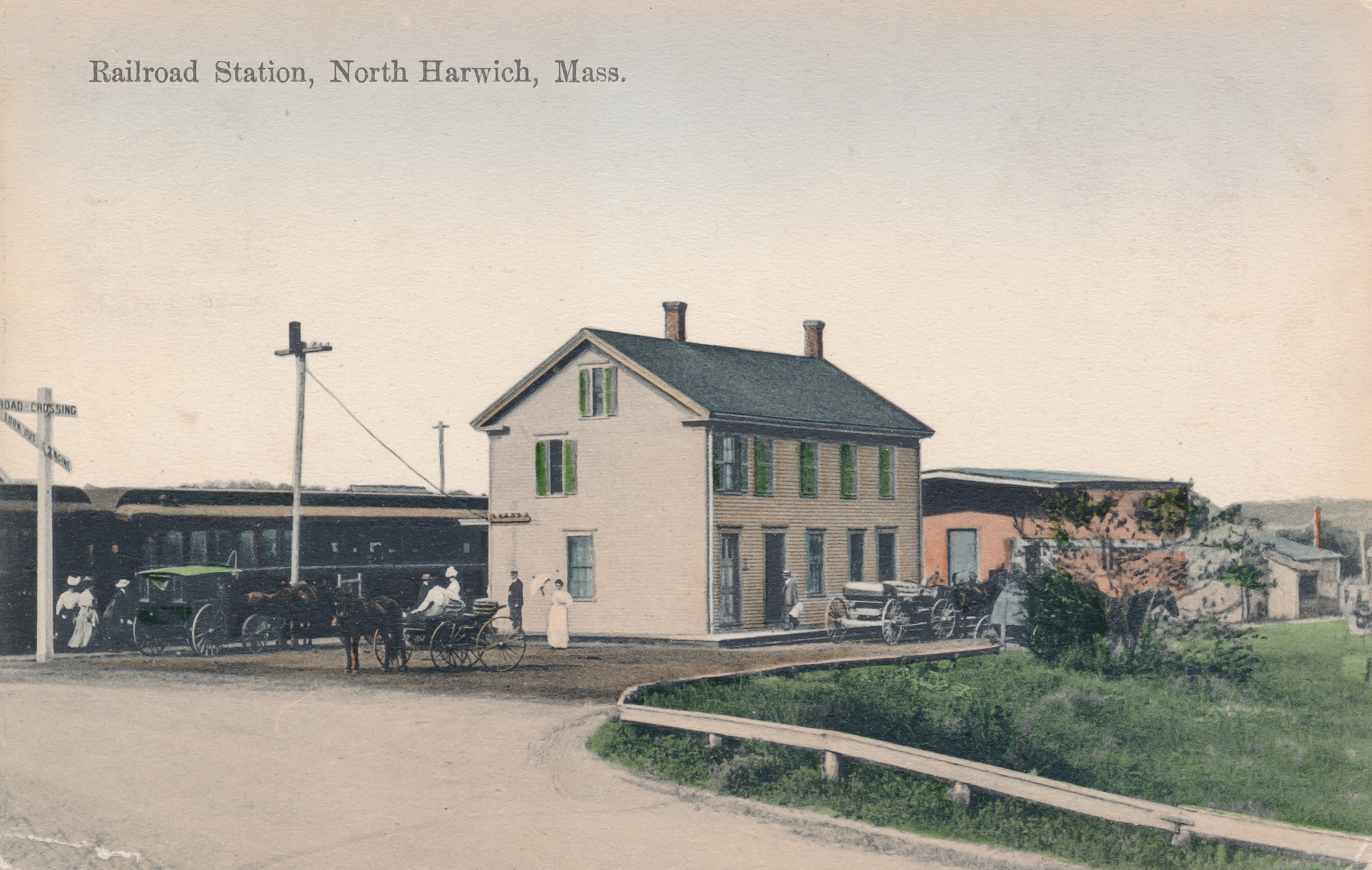 An early postcard showing the former North Harwich , Massachusetts train station on Cape Cod.